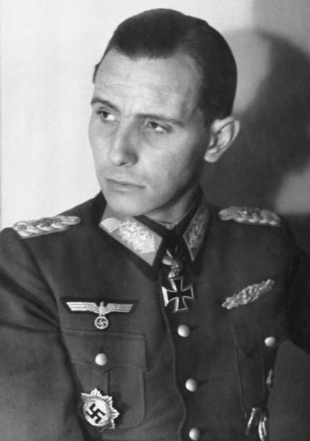 Generalmajor Otto Ernst Remer mit Orden (Deutsches Kreuz, Ritterkreuz mit Eichenlaub) und Ärmelband "Grossdeutschland", nach Januar 1945.